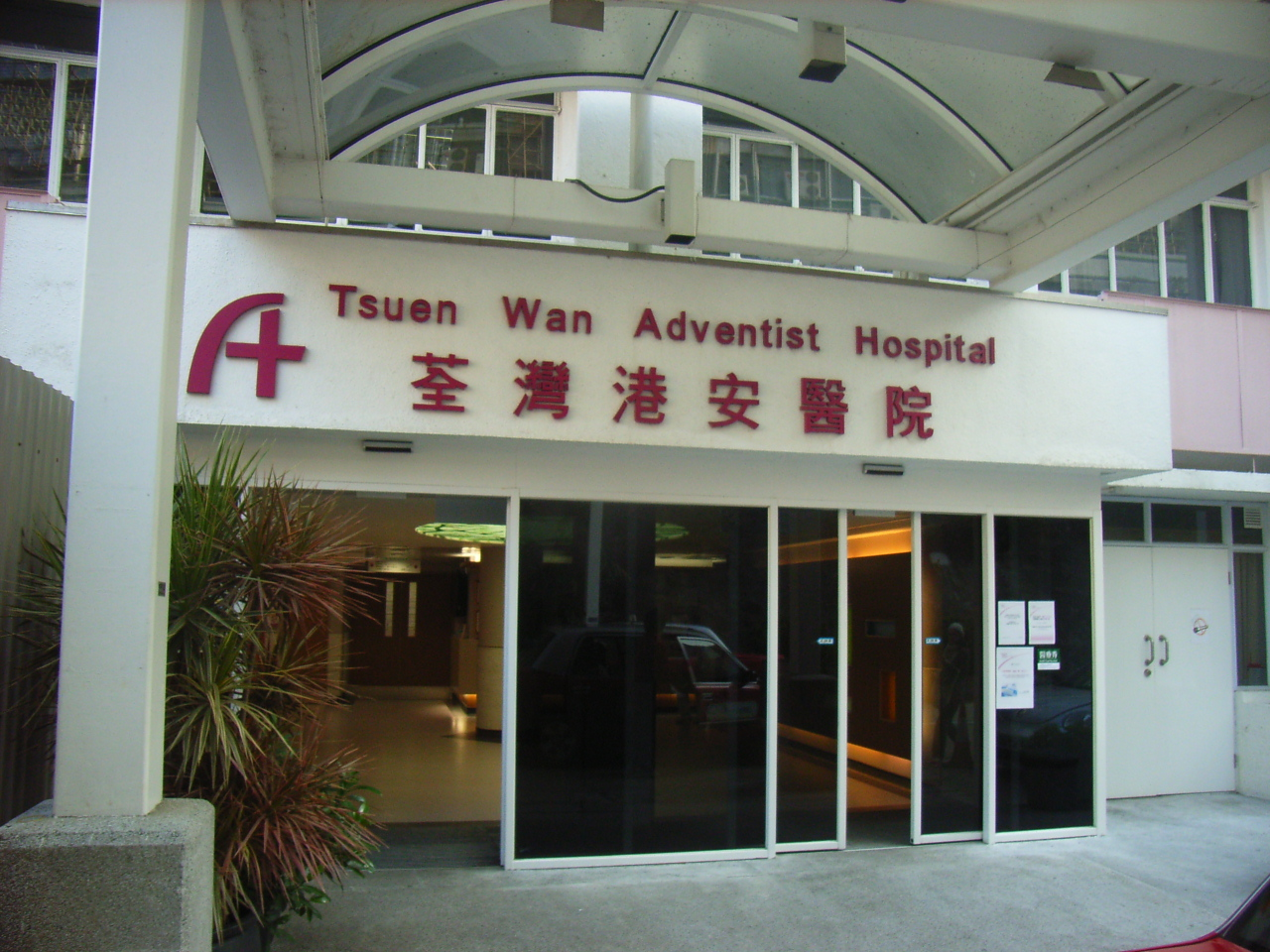 荃灣 荃景圍 荃灣港安醫院